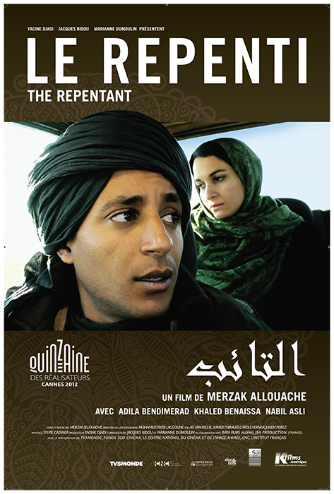 Poster of the movie The Repentant (Q3226357)